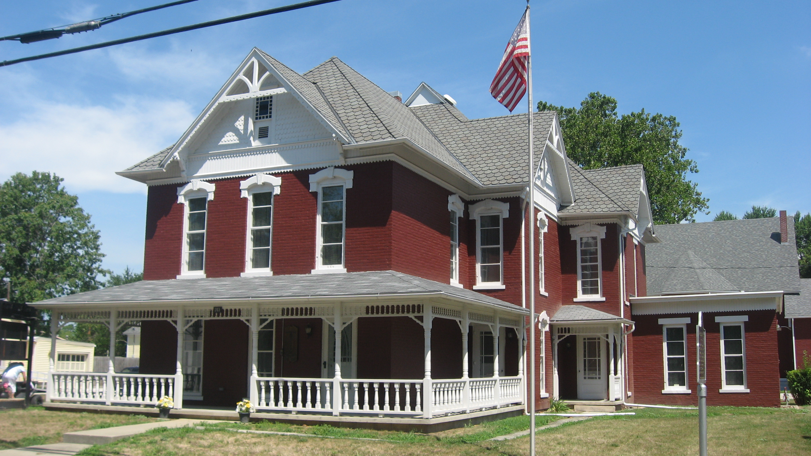 Front and eastern side of the J.W. Patterson House, located at 203 E. Washington Street in Fairmount, Indiana, United States. Built in 1888 and since converted into the local historical society museum, it is listed on the National Register of Historic Places.